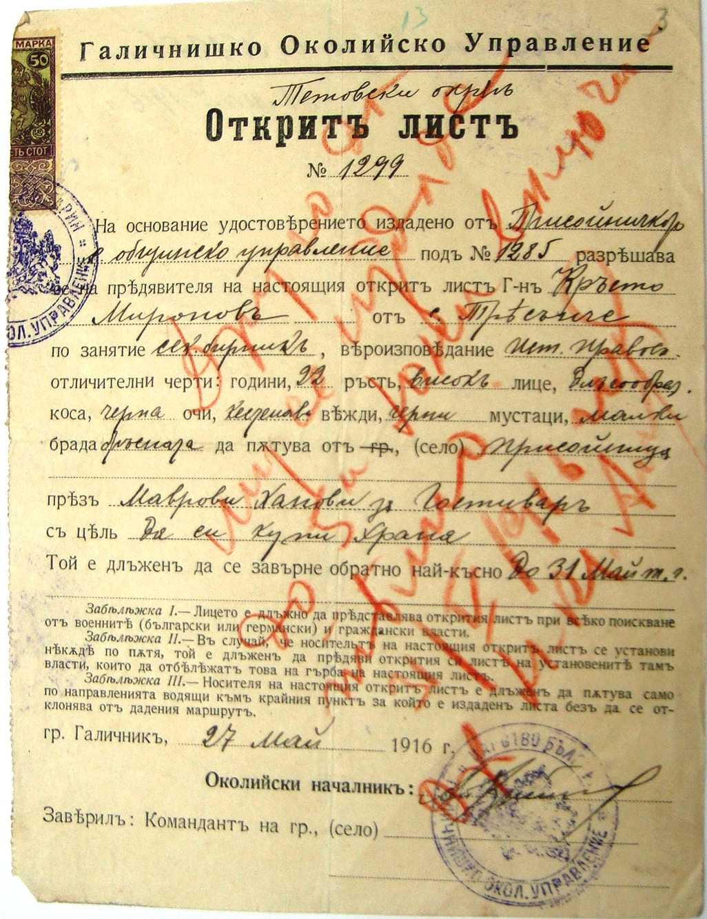 Permission to travel by designated place where to travel, purpose of travel, date of return, as well as a full description of the person traveling. Galichnik Borough issued on May 27, 1916. This media file is produced by Wikipedian in Residence in Category:Wikipedian in Residence at DARM in 2016.